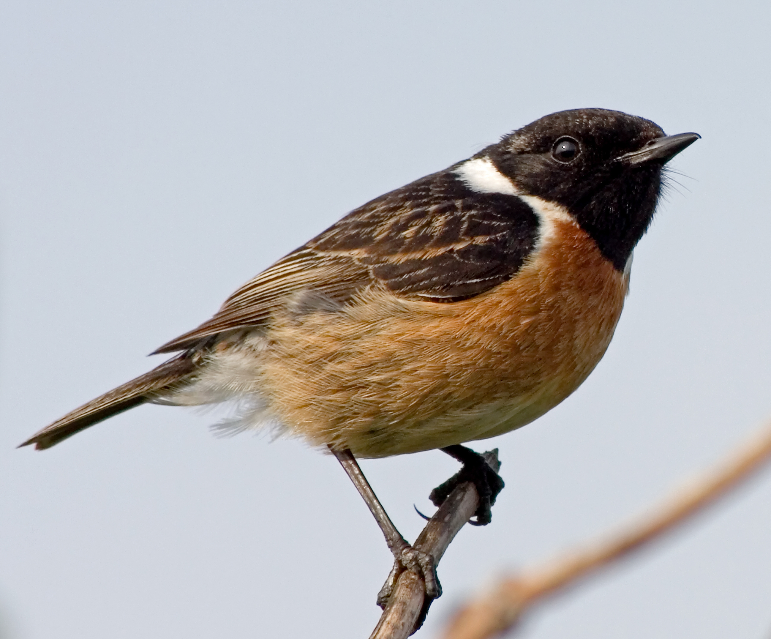 Male Stonechat